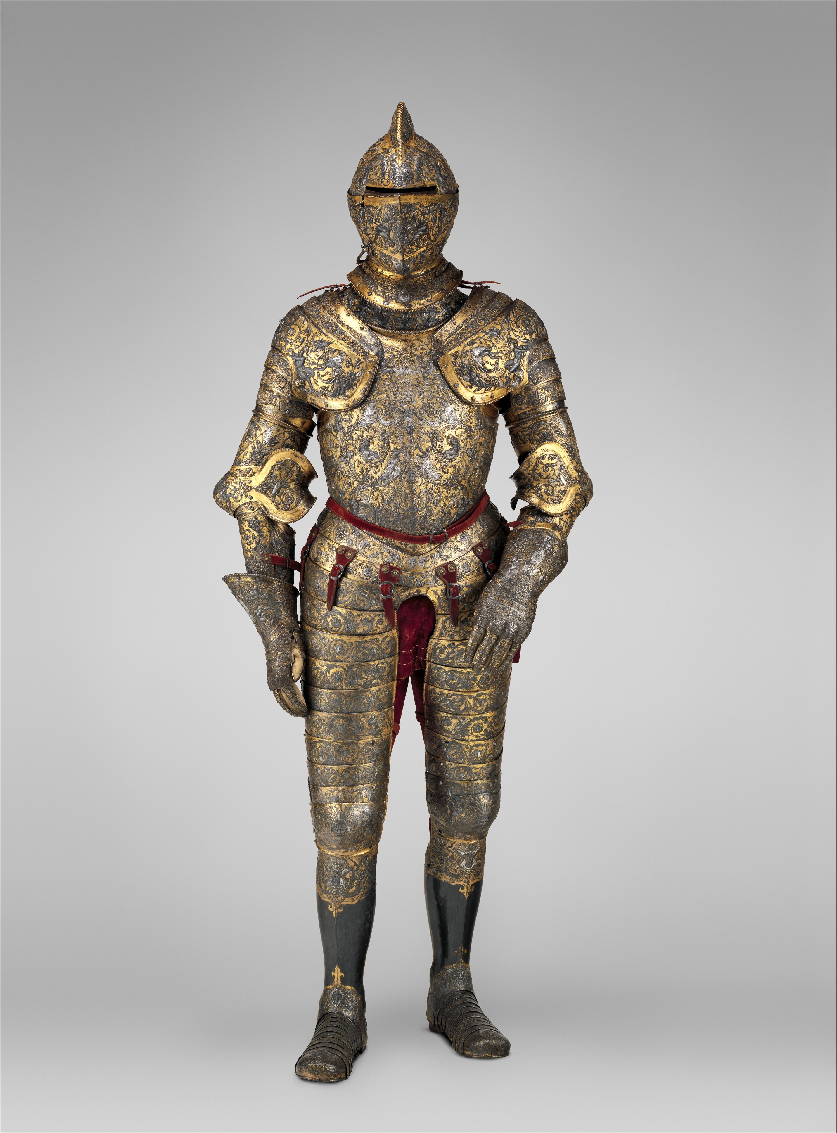 French, possibly Paris; Armor; Armor for Man